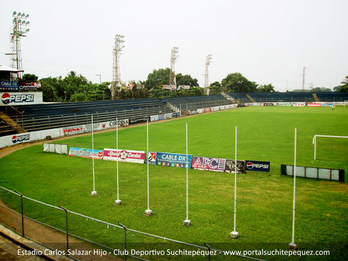 Estadio